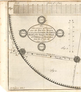 1761 transit of venus Observation reported by James Ferguson. The upper line is the transit as observed from 'Bencoolen' (Bengkulu, Sumatra) and the lower line is the transit as observed from London.